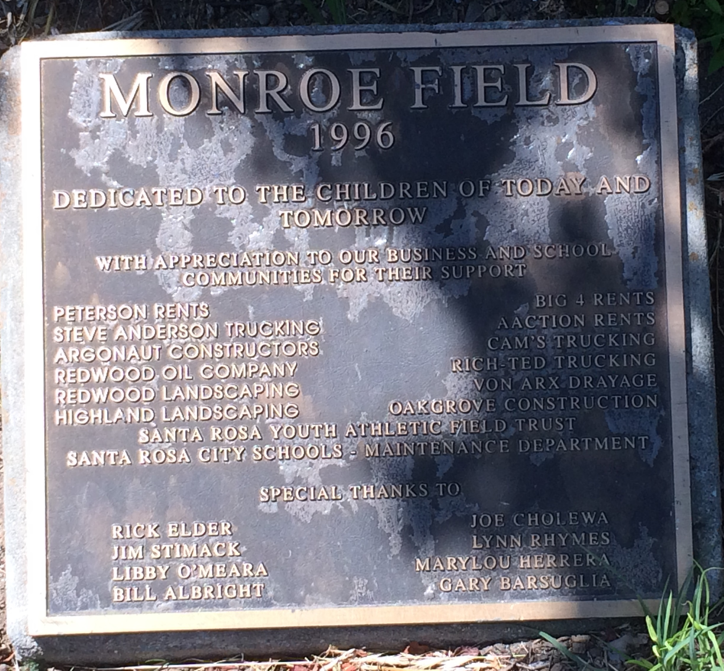 Plaque honors those who supported the development of the Monroe Field, the soccer fields behind Monroe Elementary School: Rick Elder, Jim Stimack, Libby O'Meara, Bill Albright, Joe Cholewa, Lynn Rhymes, Marylou Hererra (principal), Gary Barsuglia. The fields could have been named for the volunteers, but they chose to have it named for the Monroe District.